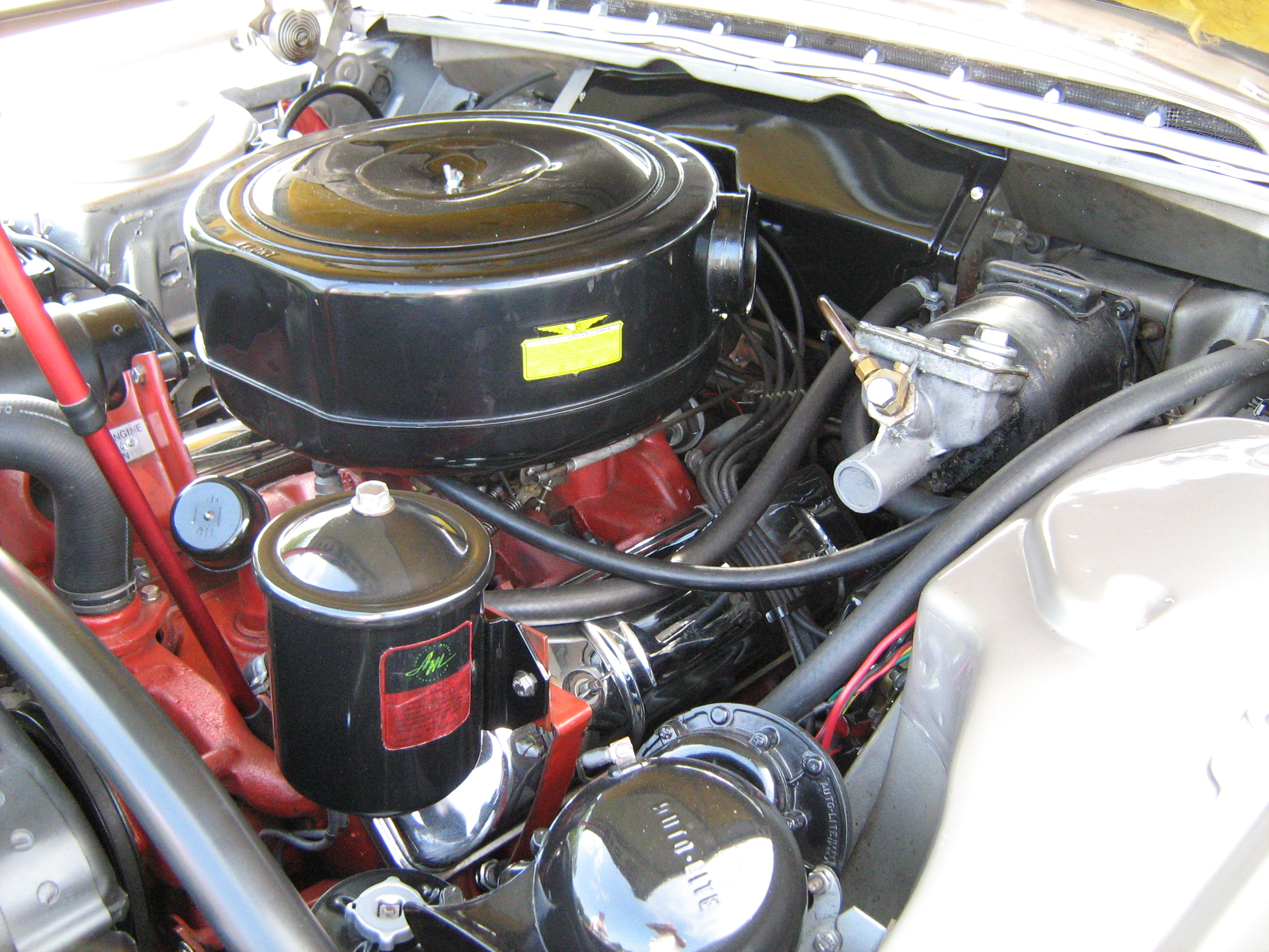 American Motor' new high-performance 327 cu. in. (5.4 L) four-barrel V8 engine featured in the 1957 Rambler Rebel, a mid-sized "muscle car" by American Motors Corporation (AMC). This was a limited edition four-door hardtop (no center pillar) model to showcase the new V8 engine. Picture taken at the Cecil County Dragstrip in Maryland.